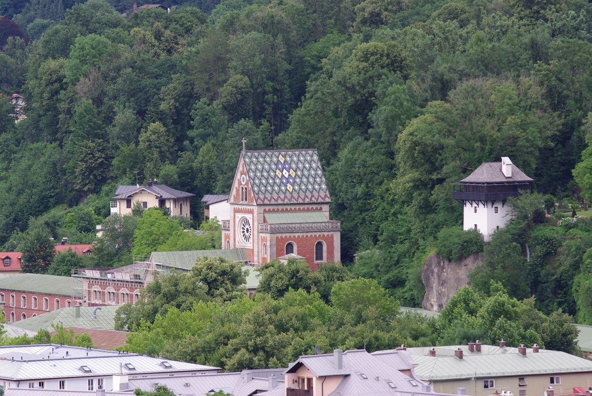 Alte Saline Bad Reichenhall